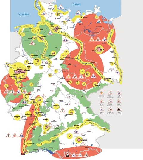 Vulnerability to climate in Germany